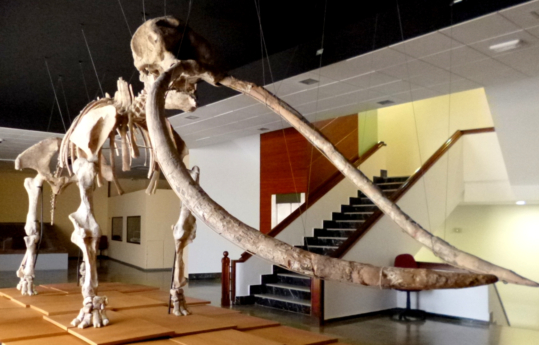 Anancus arvernensis skeleton from Las Higueruelas Upper Pliocene fossil site, Alcolea de Calatrava, Ciudad Real, Spain. Provincial Museum of Ciudad Real. Mounted from remains of several individuals.